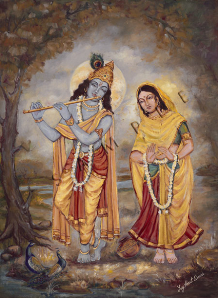 Painting of Radha Krishna by Yogi Amrit Desai